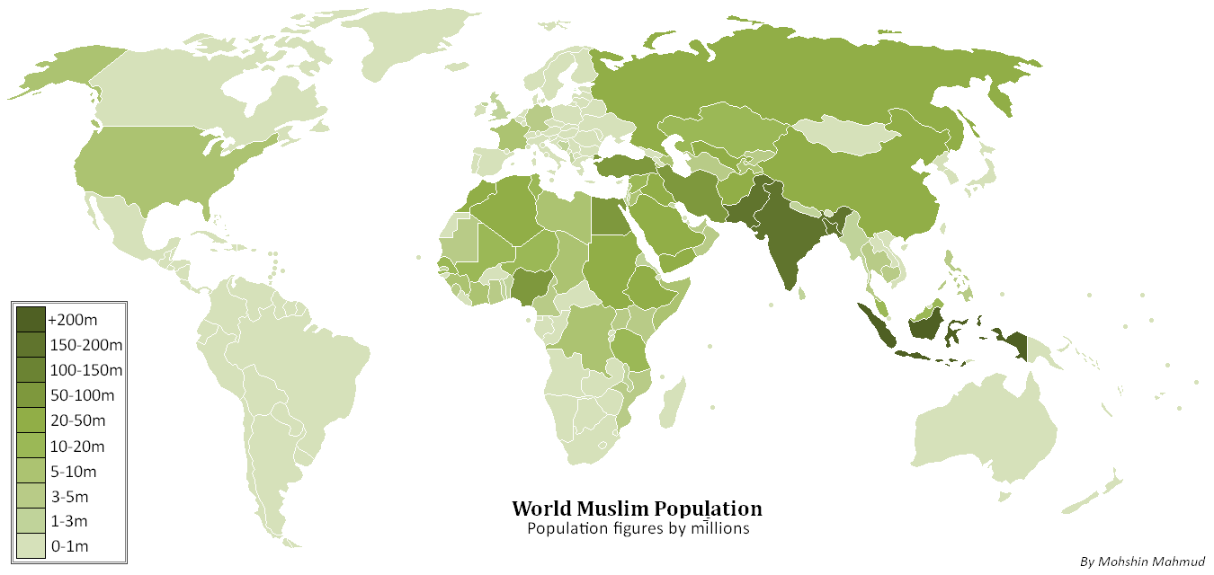 Map of the Muslim populations around the world (in million figures).